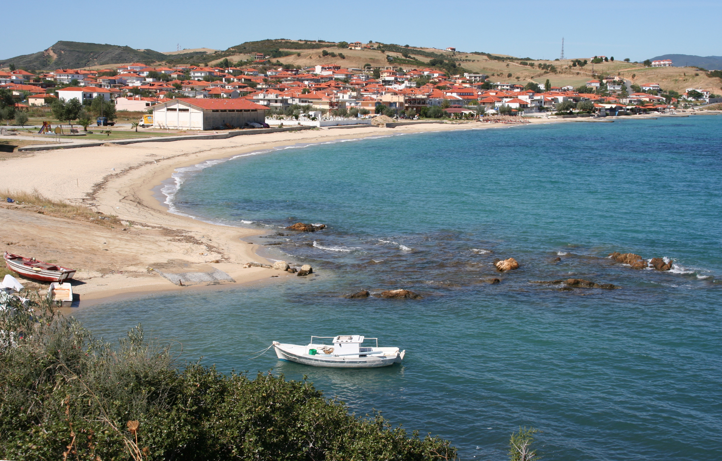 Nea Roda